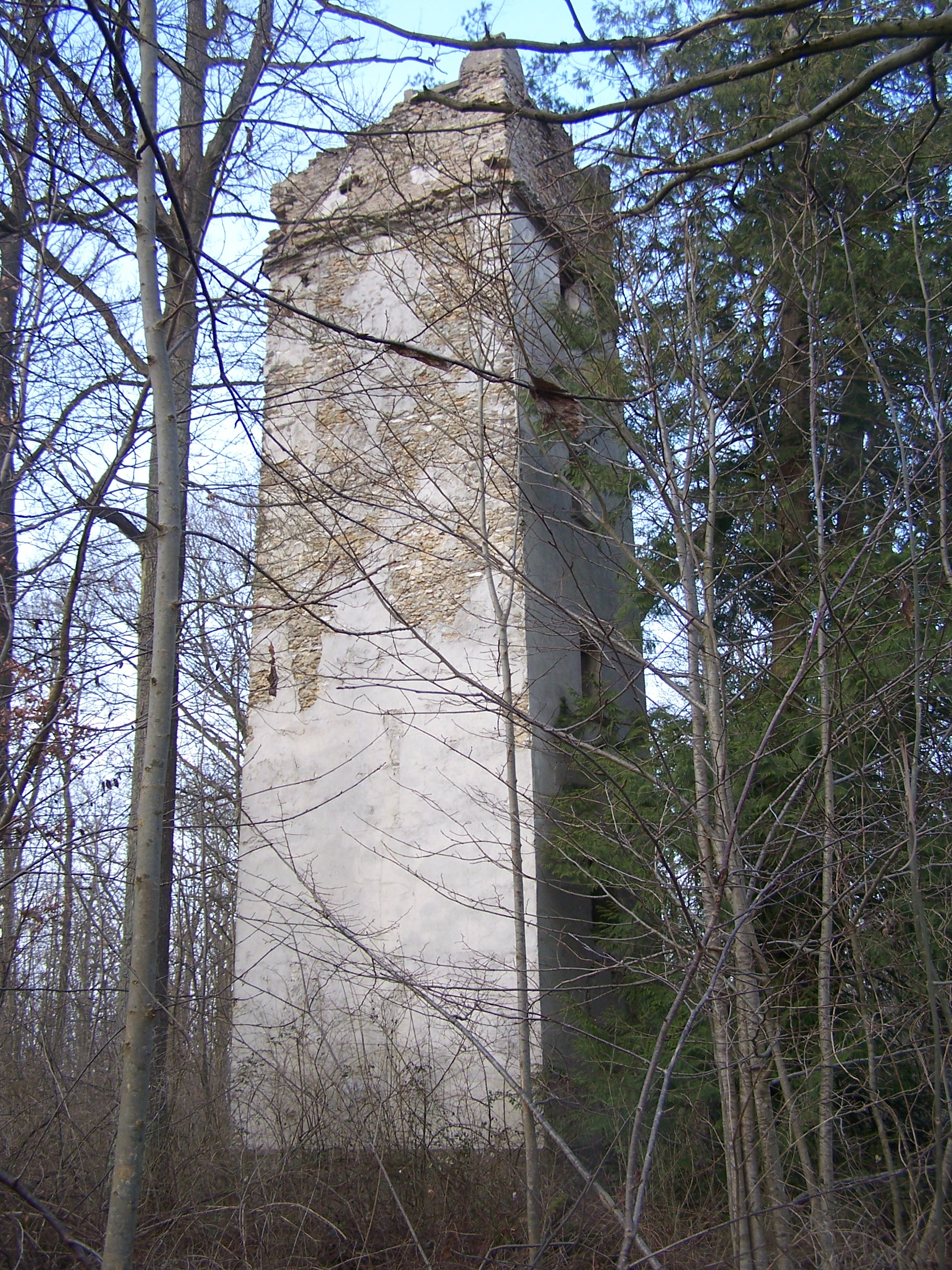 Chappe Turm in Millement (Yvelines, France)